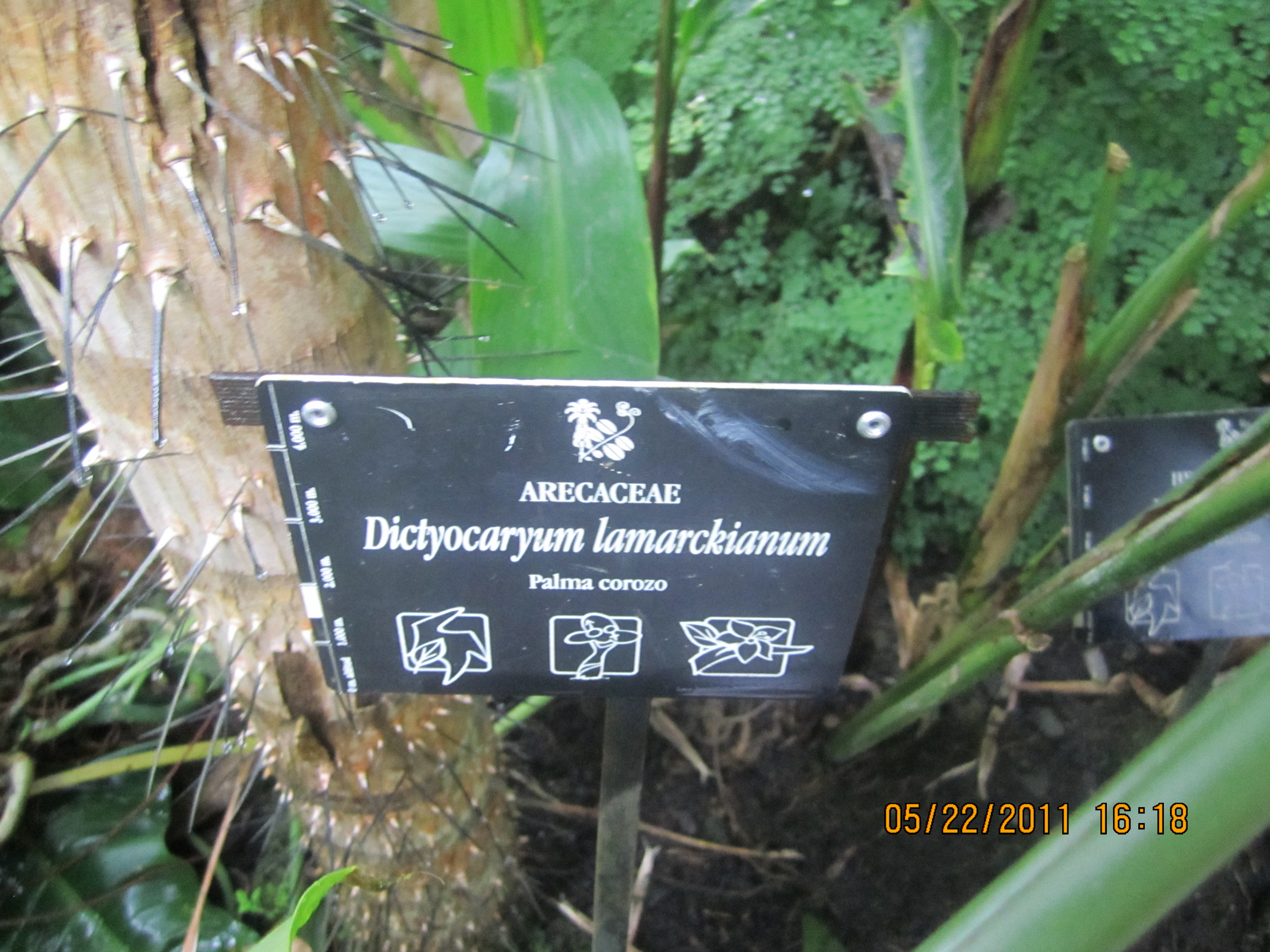 Dictyocaryum Lamarckianum